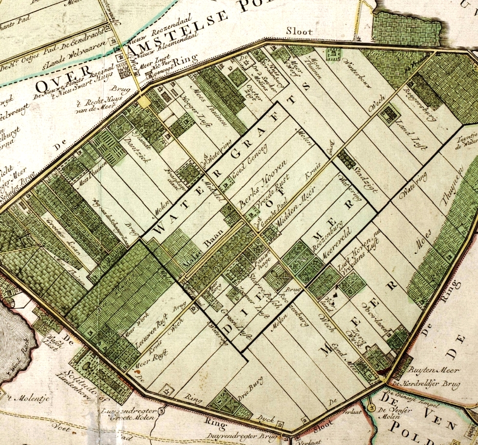 Historic map of Watergraafsmeer (now part of Amsterdam), North Holland, the Netherlands